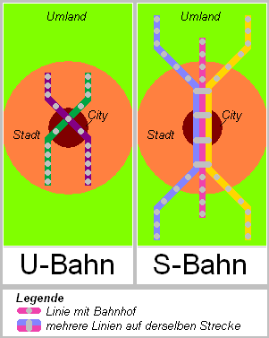 schematical comparison of characteristic line networks of unterground/metro (U-Bahn) and German S-Bahn